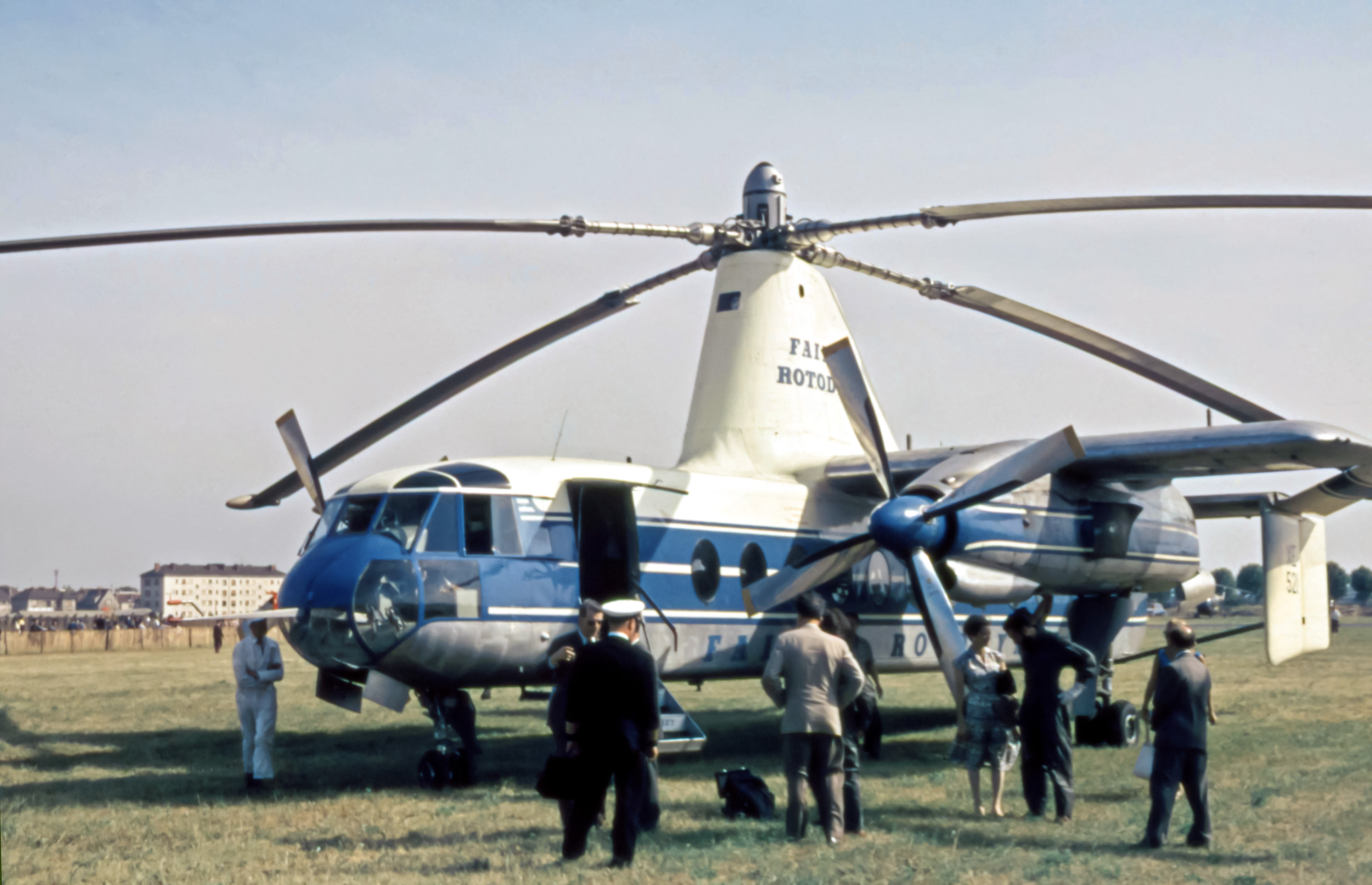 The Fairey Rotodyne prototype, a combination of helicopter, autogyro and medium distance propeller airliner that never reached series production.